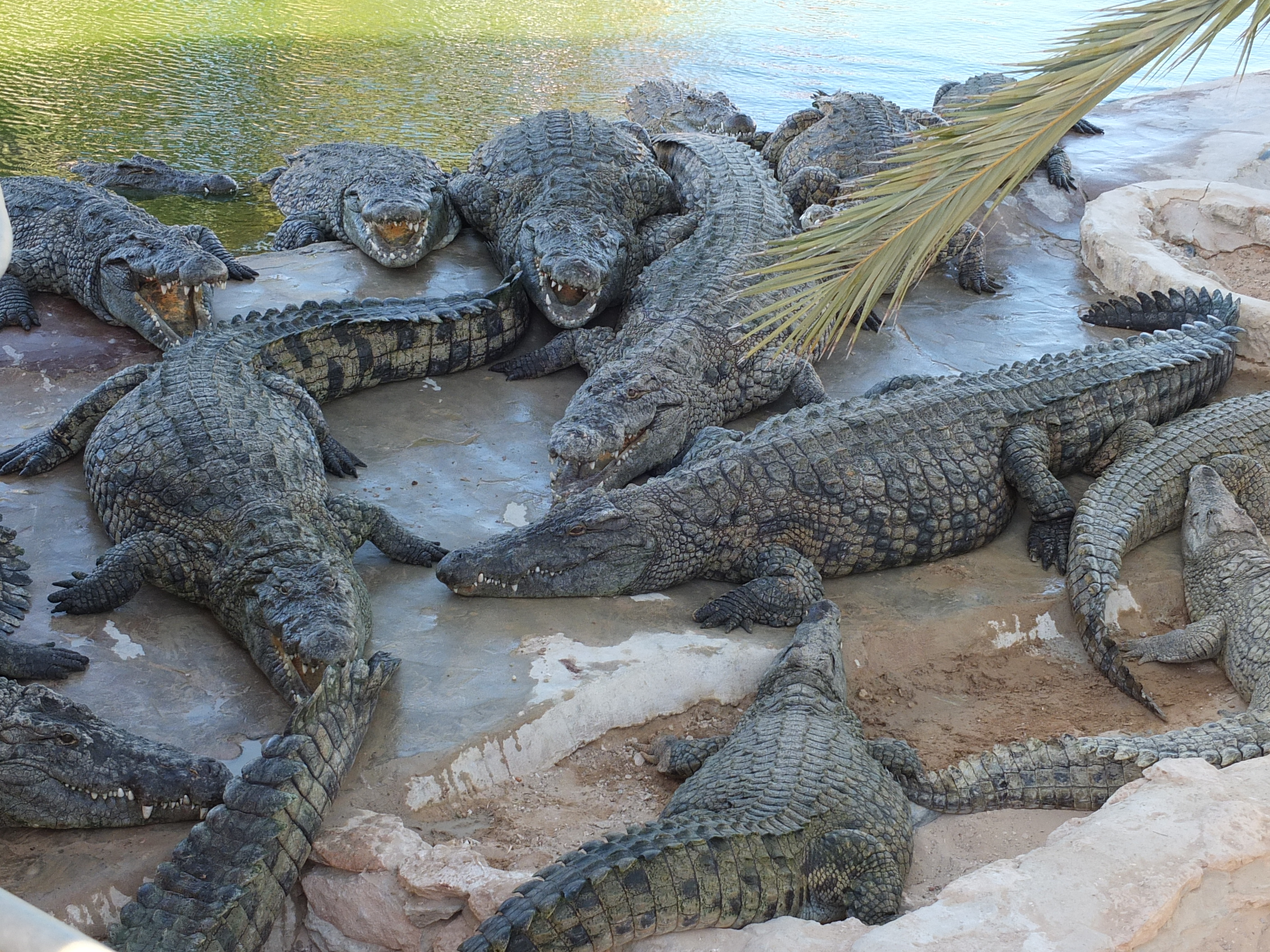 Nile crocodiles in the crocodile farm of Djerba Explore.